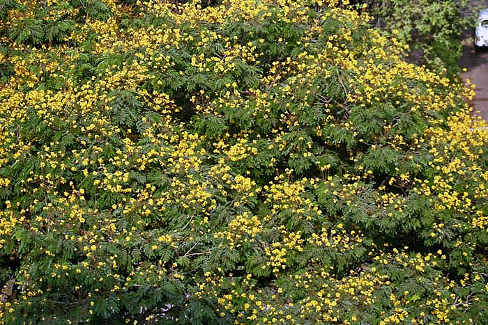 Copperpod (Peltophorum pterocarpum) in Kolkata, West Bengal, India.